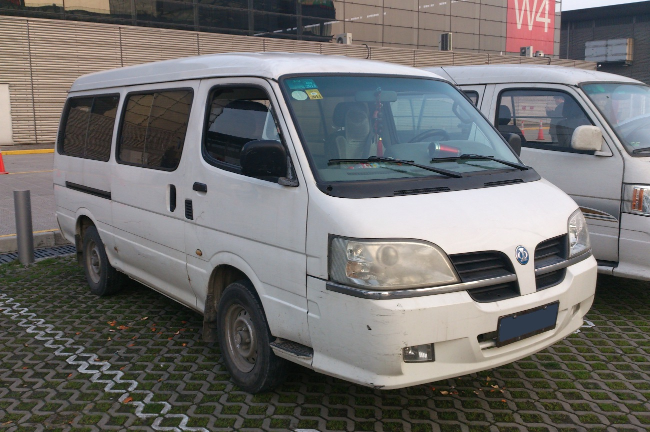 Polarsun Century photographed in Shanghai, China.